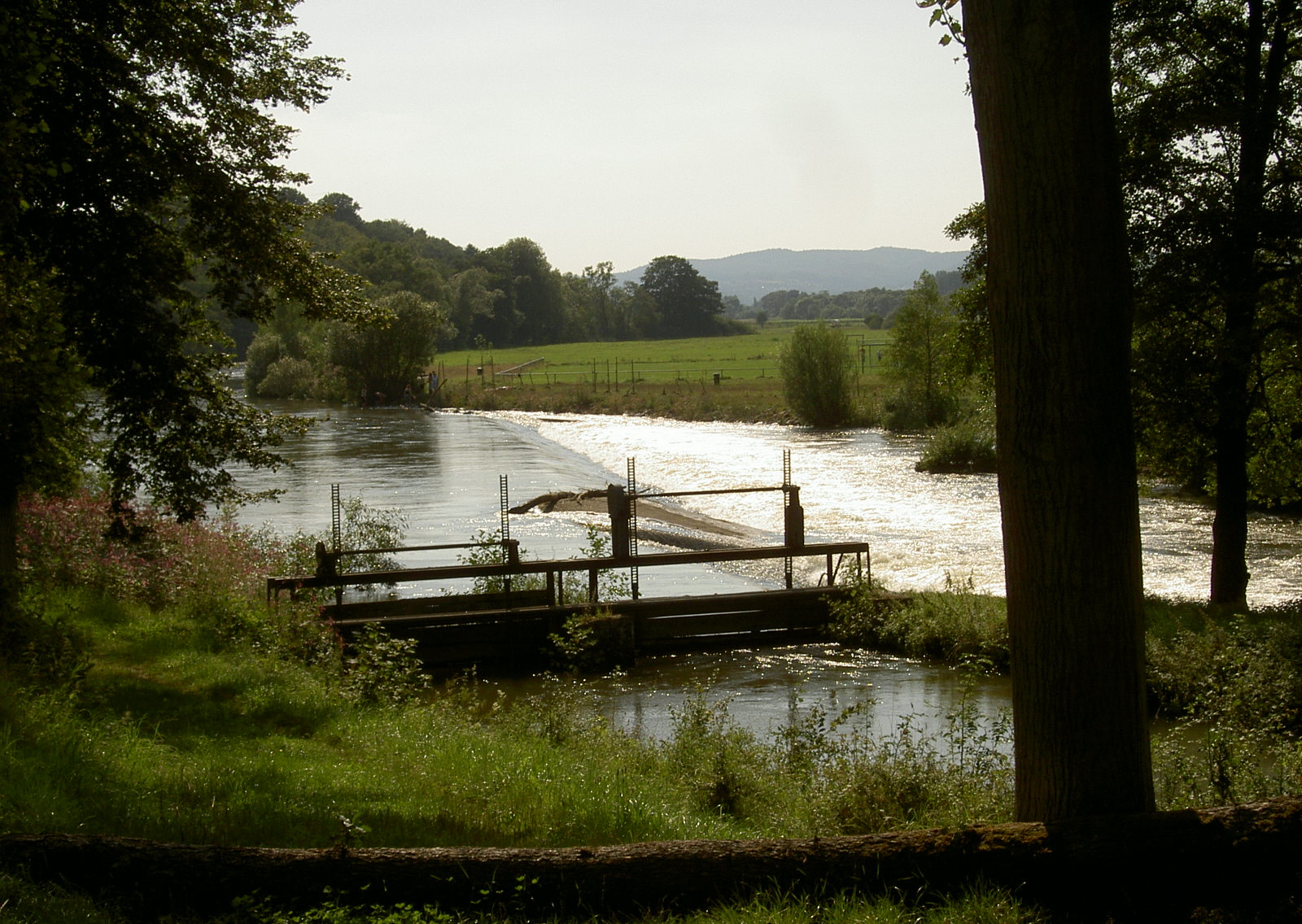 The river Eder near Frankenberg (Eder) Germany after rain. Made after a lot of rain.